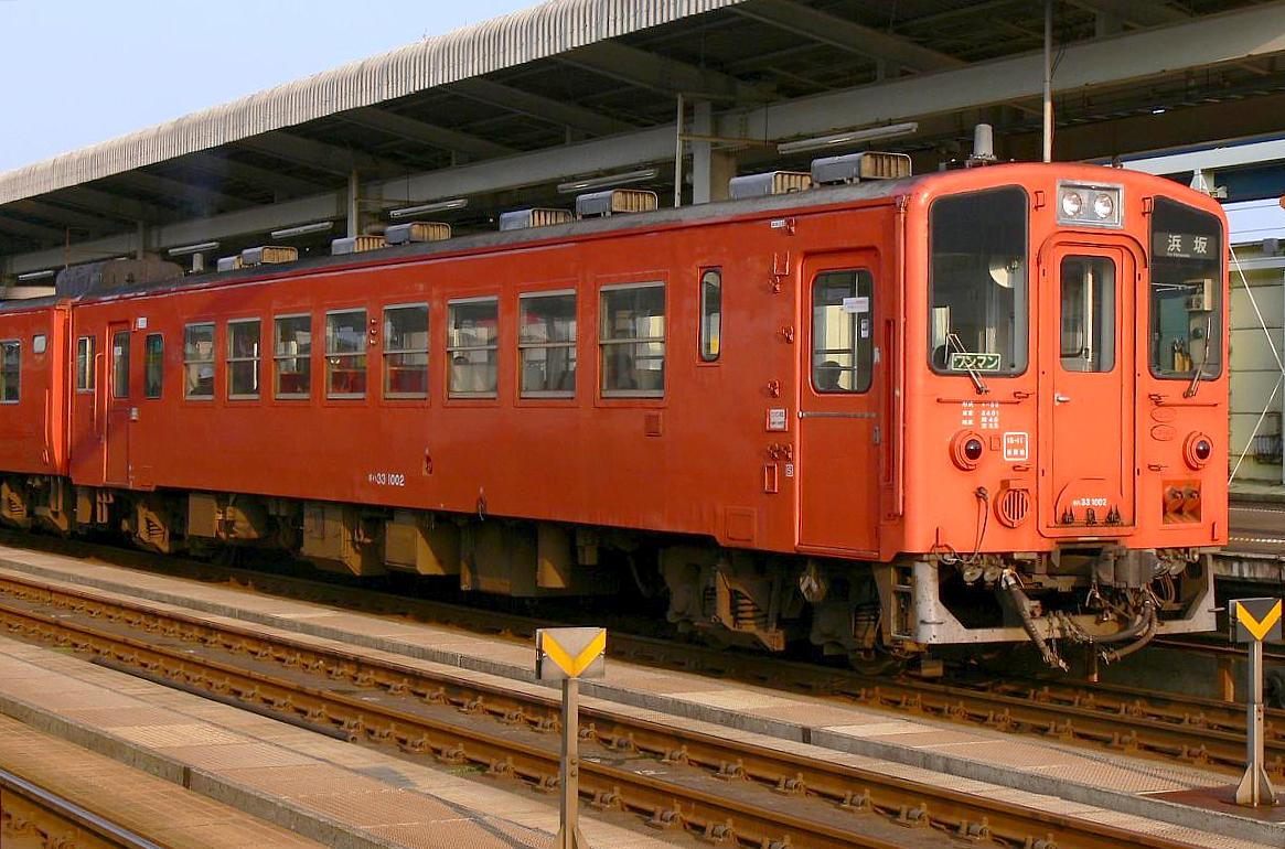 JR West KiHa 33 diesel multiple unit car KiHa 33 1002 at Tottori Station